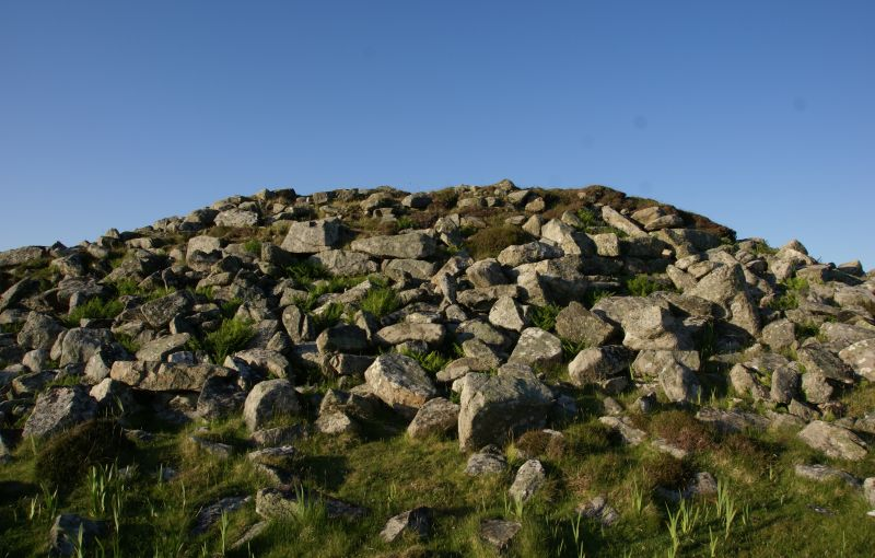 Dun a' Chaolais, a broch on Vatersay, Outer Hebrides, Scotland